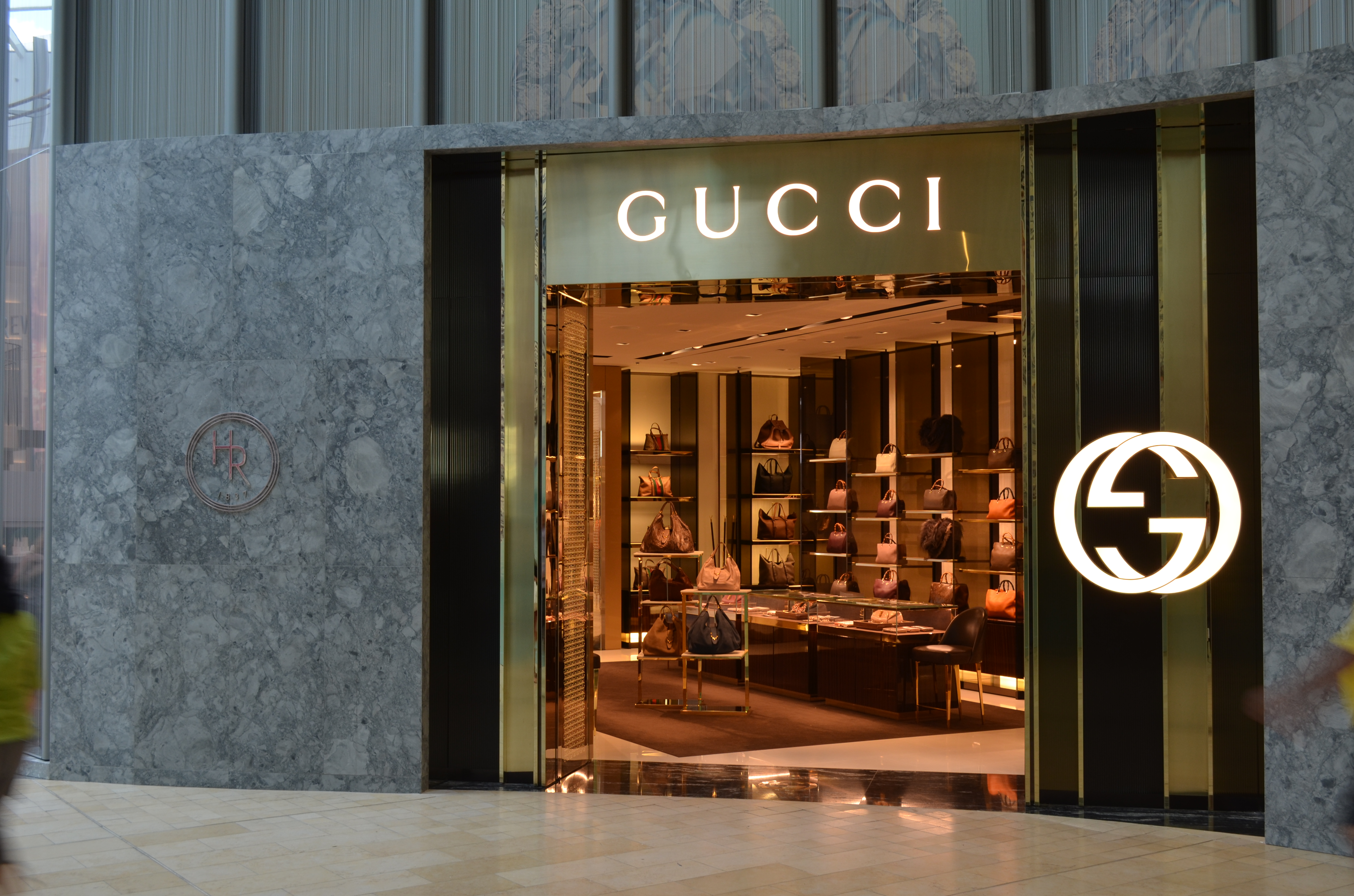 GUCCI at Yorkdale Mall